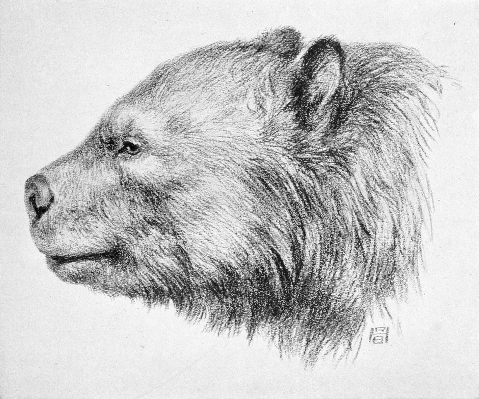 Life restoration of Arctotherium bonariense from W.B. Scott's A History of Land Mammals in the Western Hemisphere. New York: The Macmillan Company.